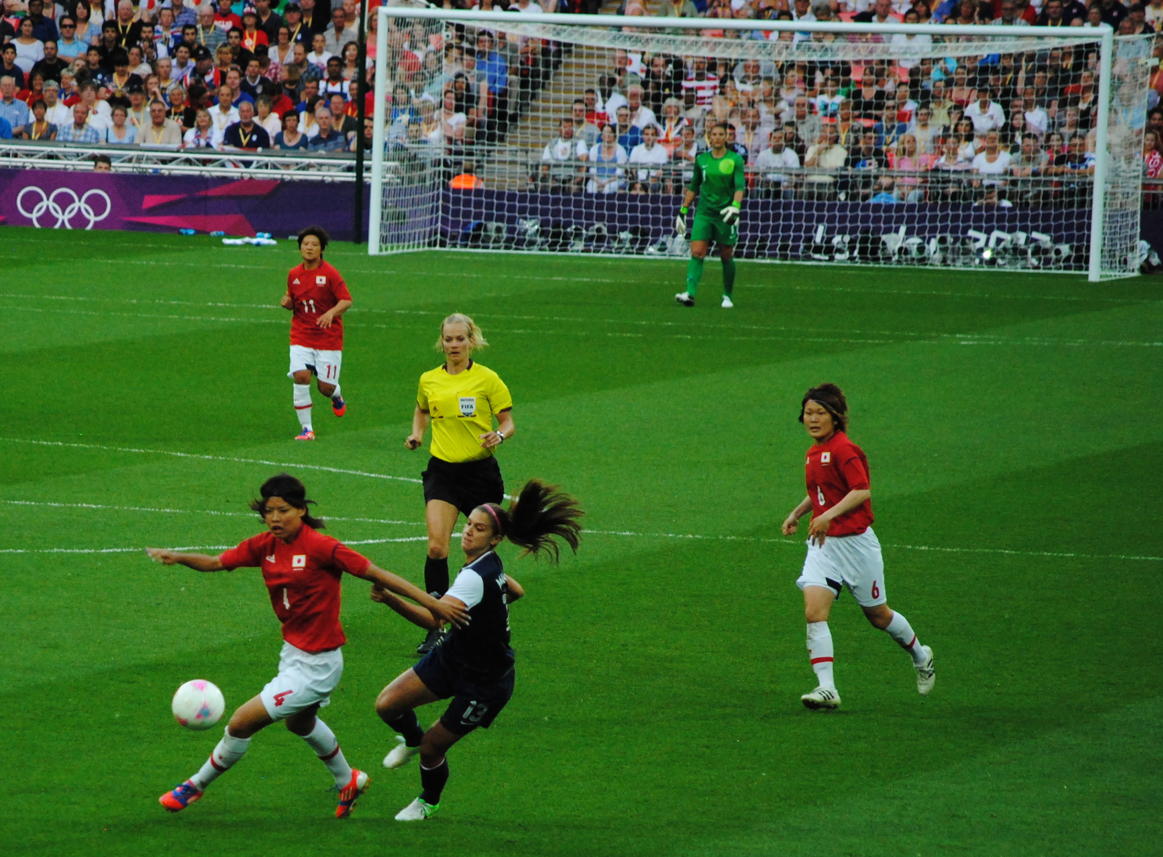 USA vs Japan at the 2012 Summer Olympics